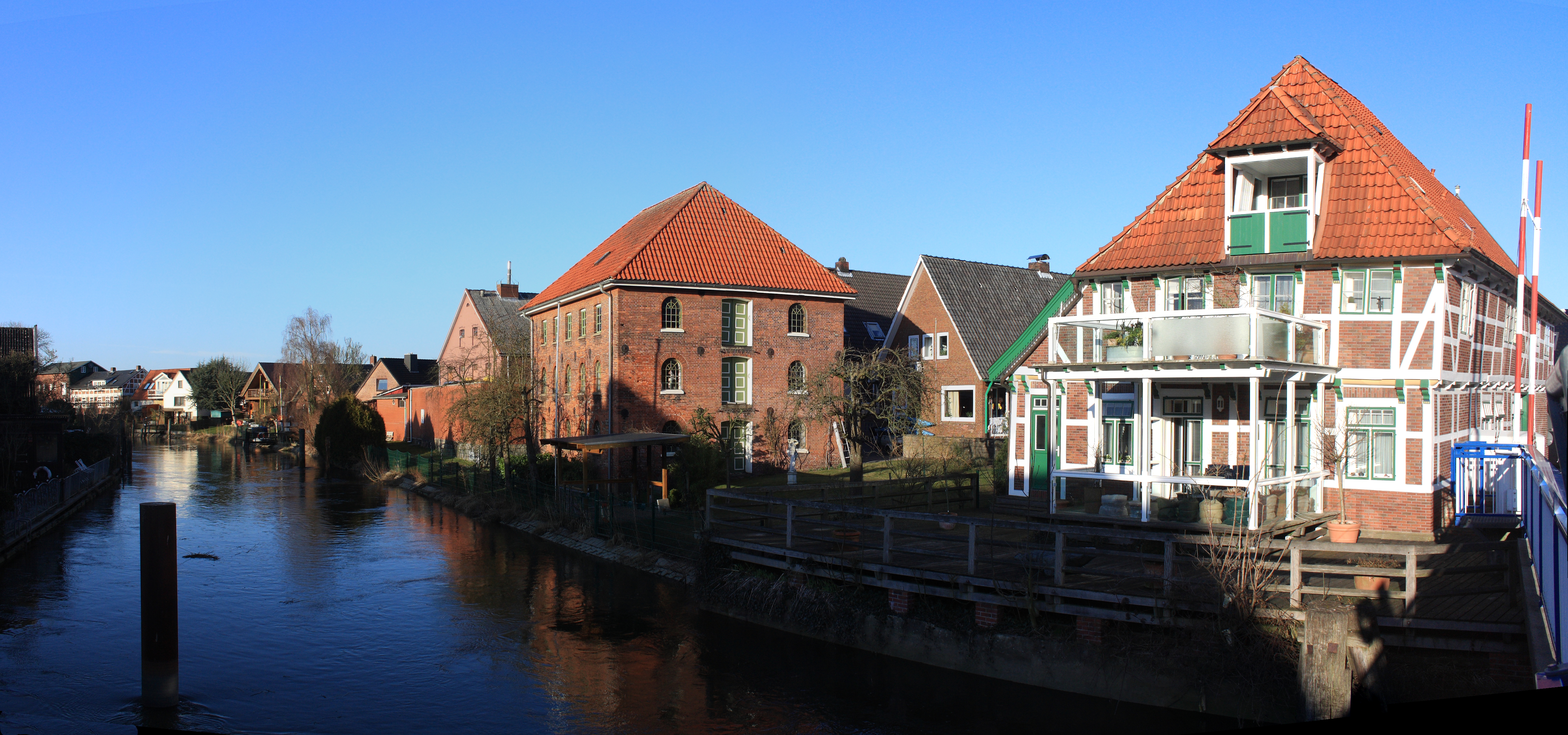 View from the swingbridge on river Este at Estebrügge.